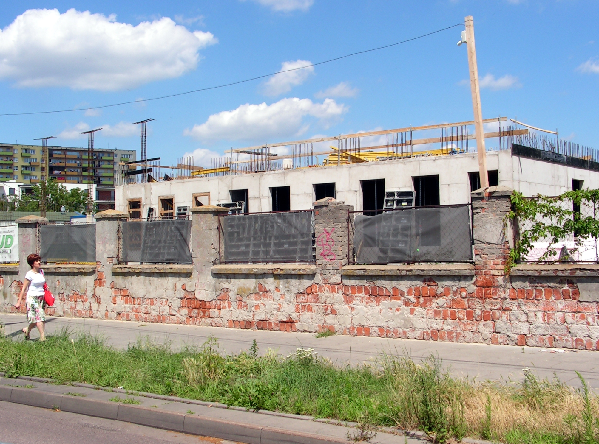 Building of new court at 28 Żeromskiego street in Włocławek.